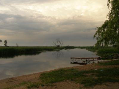 The town beach at the bank of the river Biebrza in Goniądz, Poland